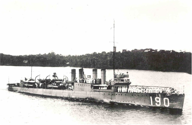 The U.S. Navy destroyer USS Satterlee (DD-190), circa in 1920.